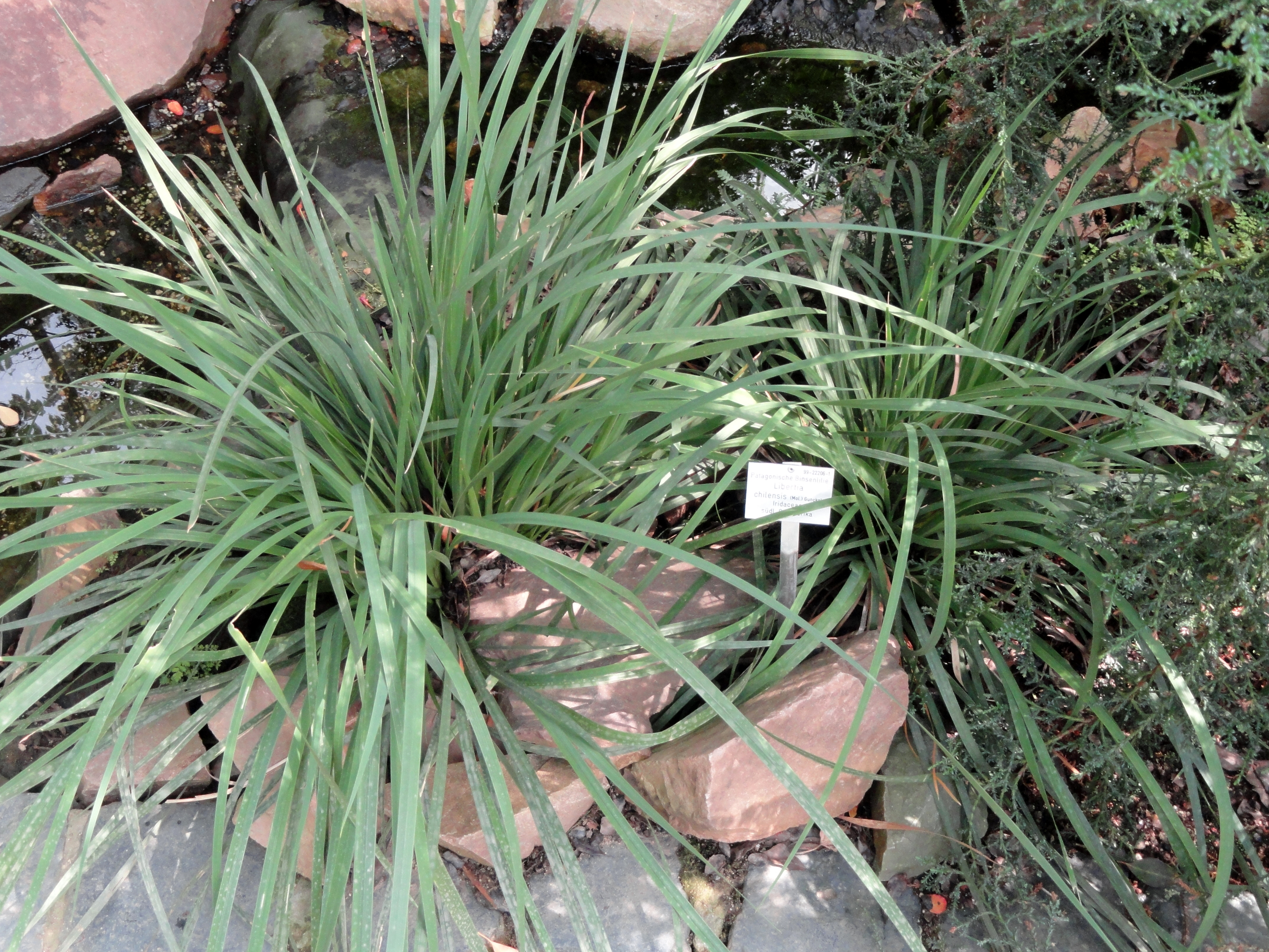 Botanical specimen in the Palmengarten, Frankfurt am Main, Germany.